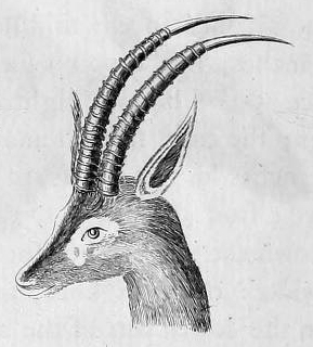 In 1771, the second known image made while Blue Antelope's lived - the head of a Blaauwbock - appeared in Pennant’s book on Quadrupeds. Pennant noted that the colour was a fine blue when alive, but when dead, this changed to a blueish-grey, with a mixture of white. "I described it from a skin which I bought at Amsterdam, brought from the Cape of Good Hope. I was informed, that they are found far up the country, north of that vast promontory; which I find confirmed by the late journies. It is called by the Dutch the Blauwe Bock, or blue goat. This is the species which, from the form of the horns and length of the hair, seems to connect the Goat and Antelope race."